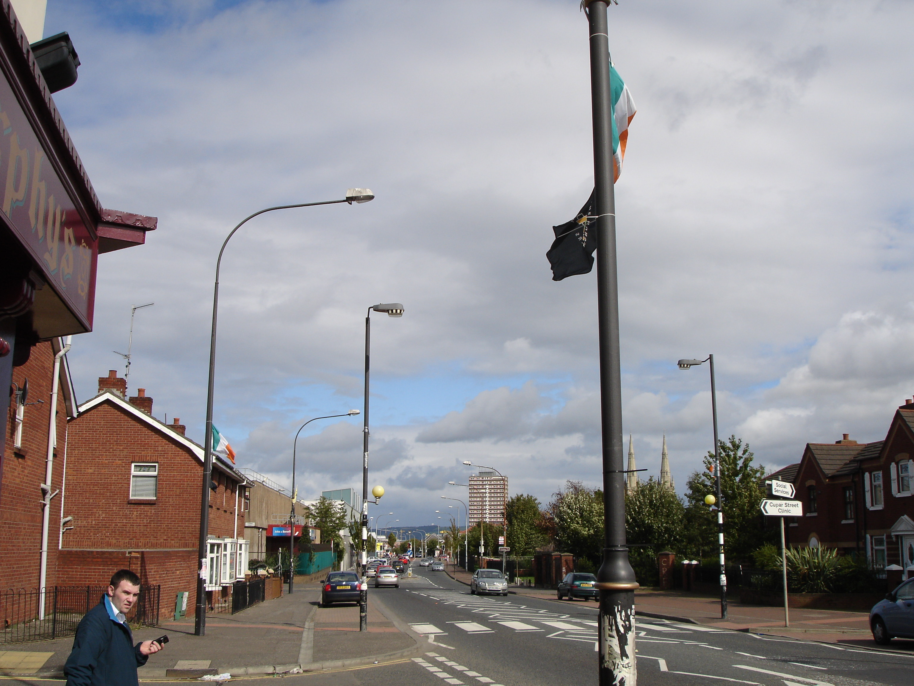 Belfast the capital of Northern Ireland -part of the United Kingdom -Belfast has experienced a renaissance since the 1994 cease-fire promised an end to the decades-old "Troubles" between Catholics and Protestants. Stretching along both sides of the River Lagan, the graceful city of Victorian and Edwardian buildings has become a cosmopolitan tourist destination. Once a major industrial center, Belfast is also a gateway to the rich, Irish countryside of Ulster, Antrim and Donegal. See set comments for “Belfast Overview”.